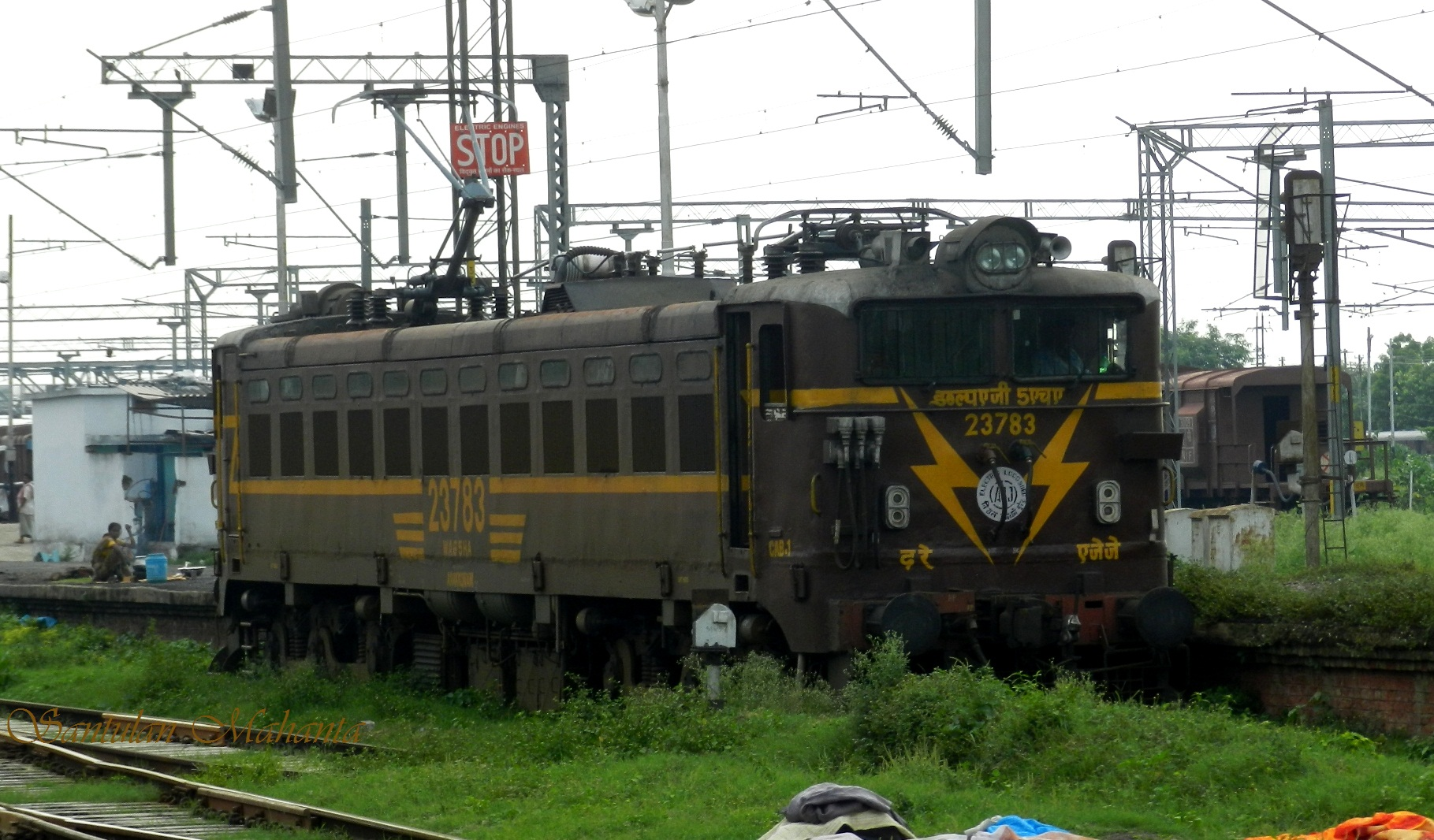 Perhaps for OHE testing purpose